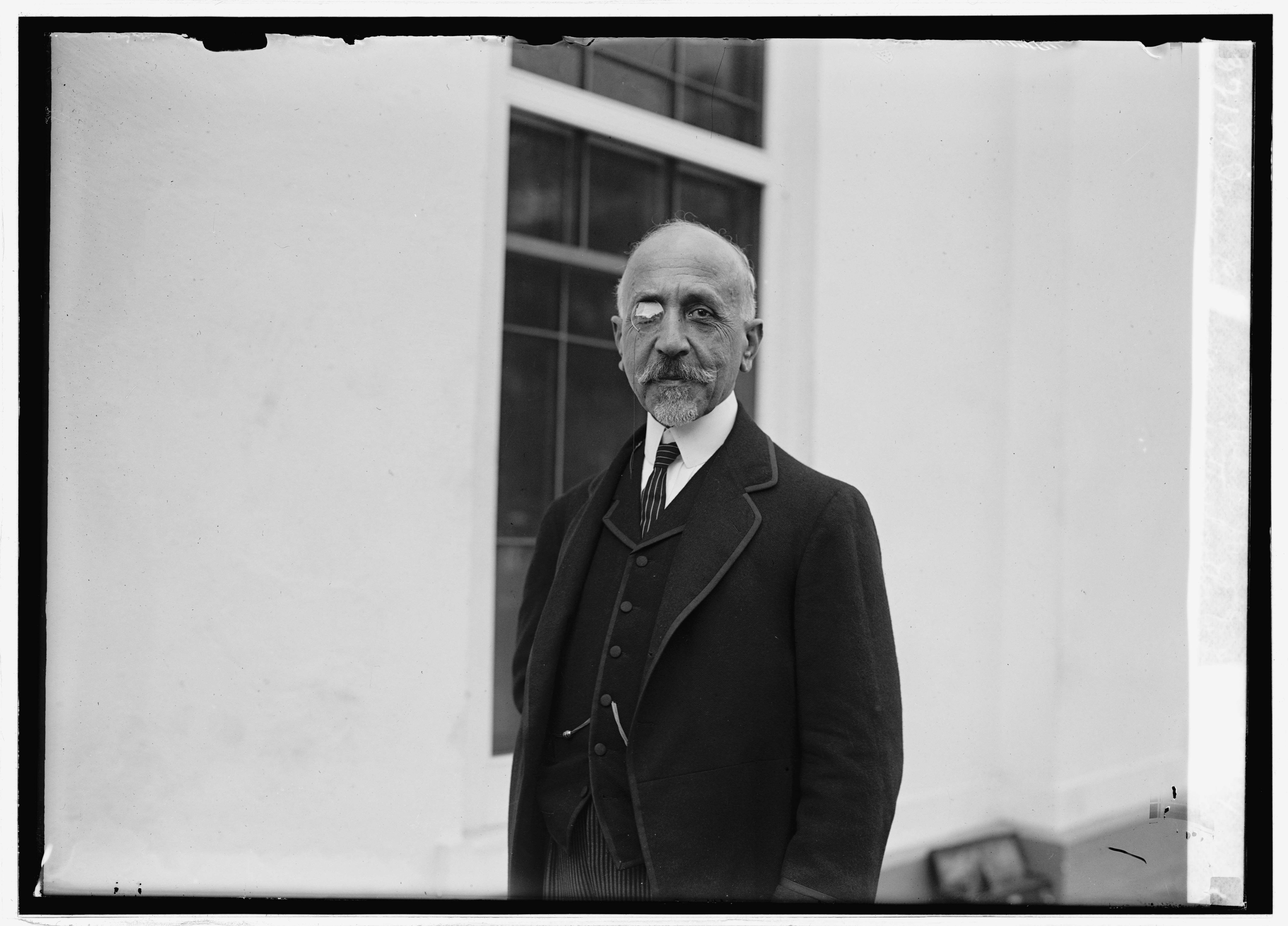 Title: Jean Counouriotis, brother to Pres. of Greece at White House, [Washington, D.C.], 9/3/24 Abstract/medium: 1 negative : glass ; 5 x 7 in. or smaller